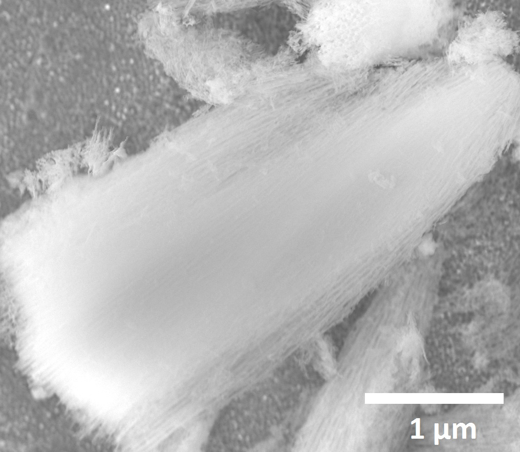 These rods have a diameter in the range of tens of nanometers, making them the thinnest silver wires in the world. Such wires can be synthesized by electrochemically depositing silver into a nanoporous aluminum oxide template. One of the most interesting applications for this nanomaterial are electrochemical sensors, flexible conductive materials and glues that conduct heat and electricity. In order to see such nanowires, one needs a powerful scanning electron microscope (SEM).